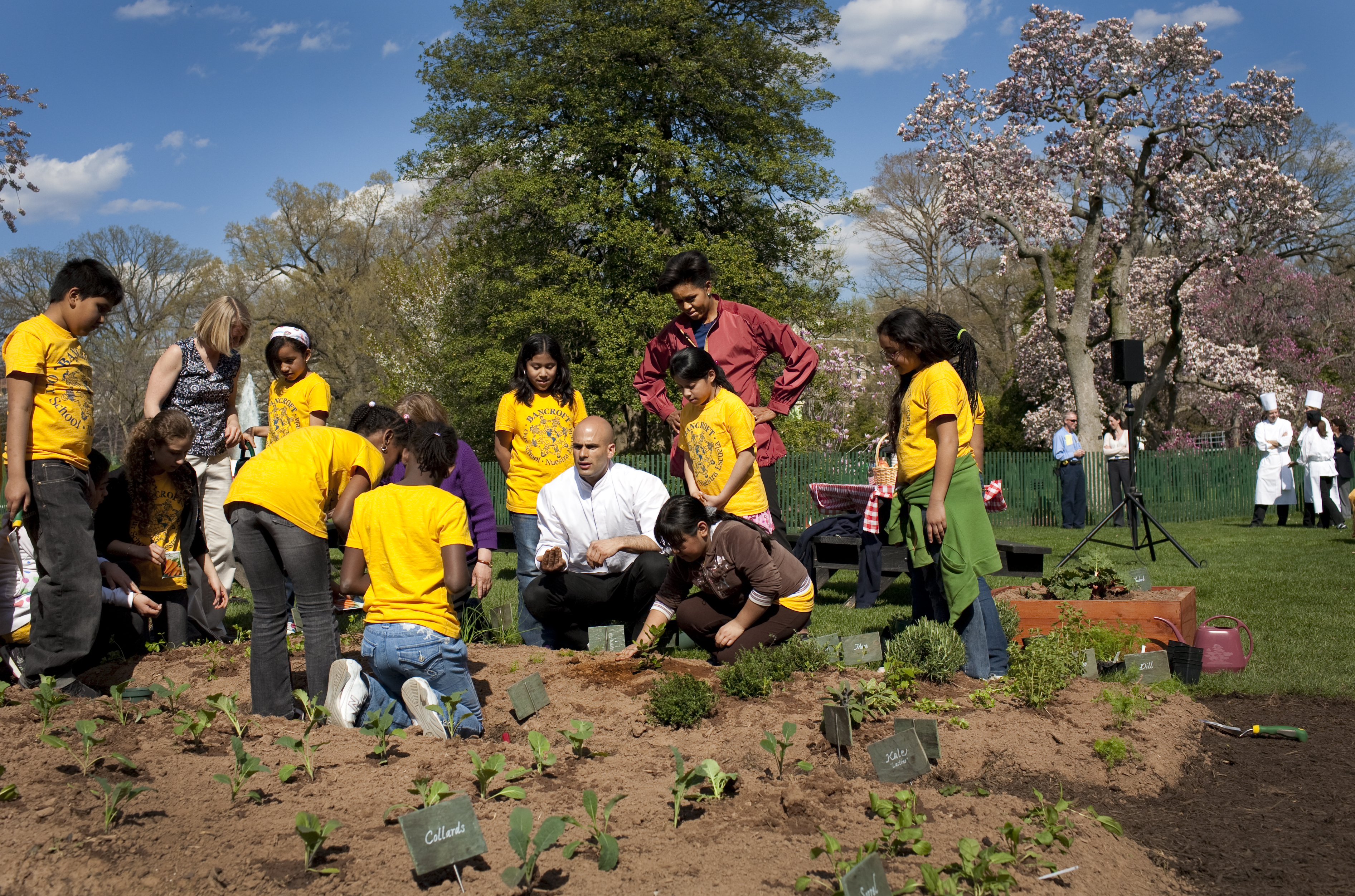 First Lady Michelle Obama and White House Chef Sam Kass show students from the Bancroft Elementary how to plant a garden. The White House Vegetable Garden was officially planted today.